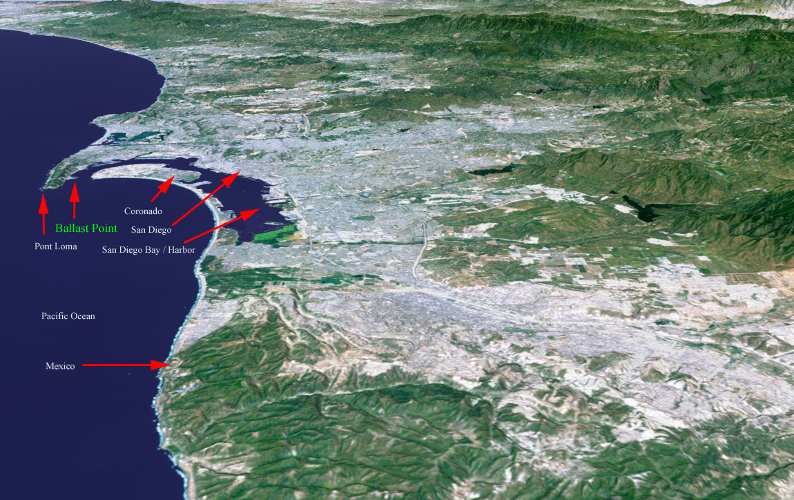 3D image showing location of Ballast Point and other sites near San Diego, California. Derived from NASA image.